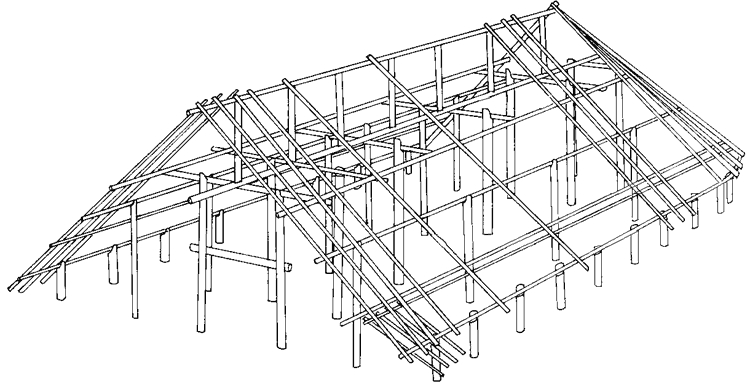 Structure of Tukano house.